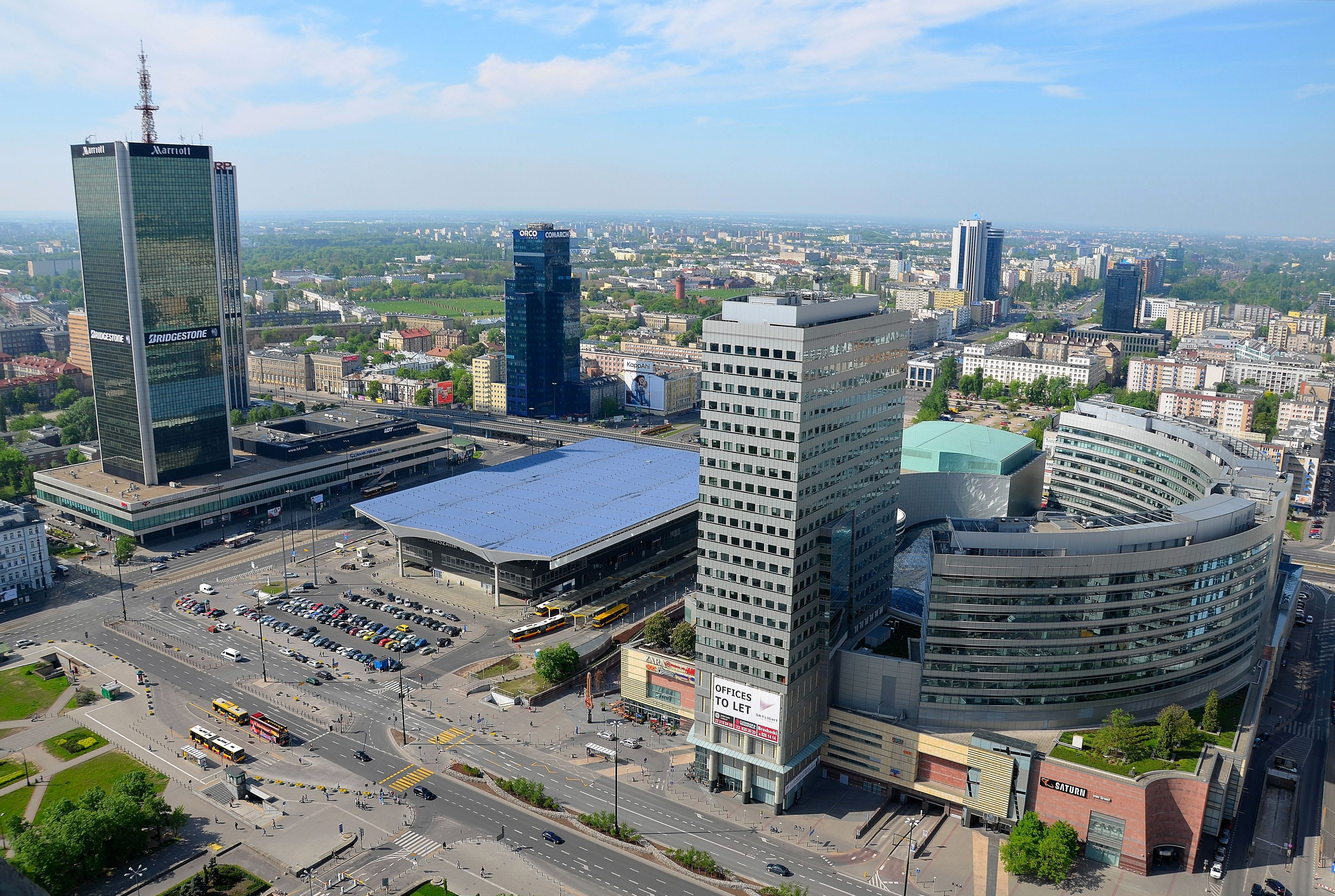 South Śródmieście and Ochota districts viewed from the Palace of Culture and Science in Warsaw